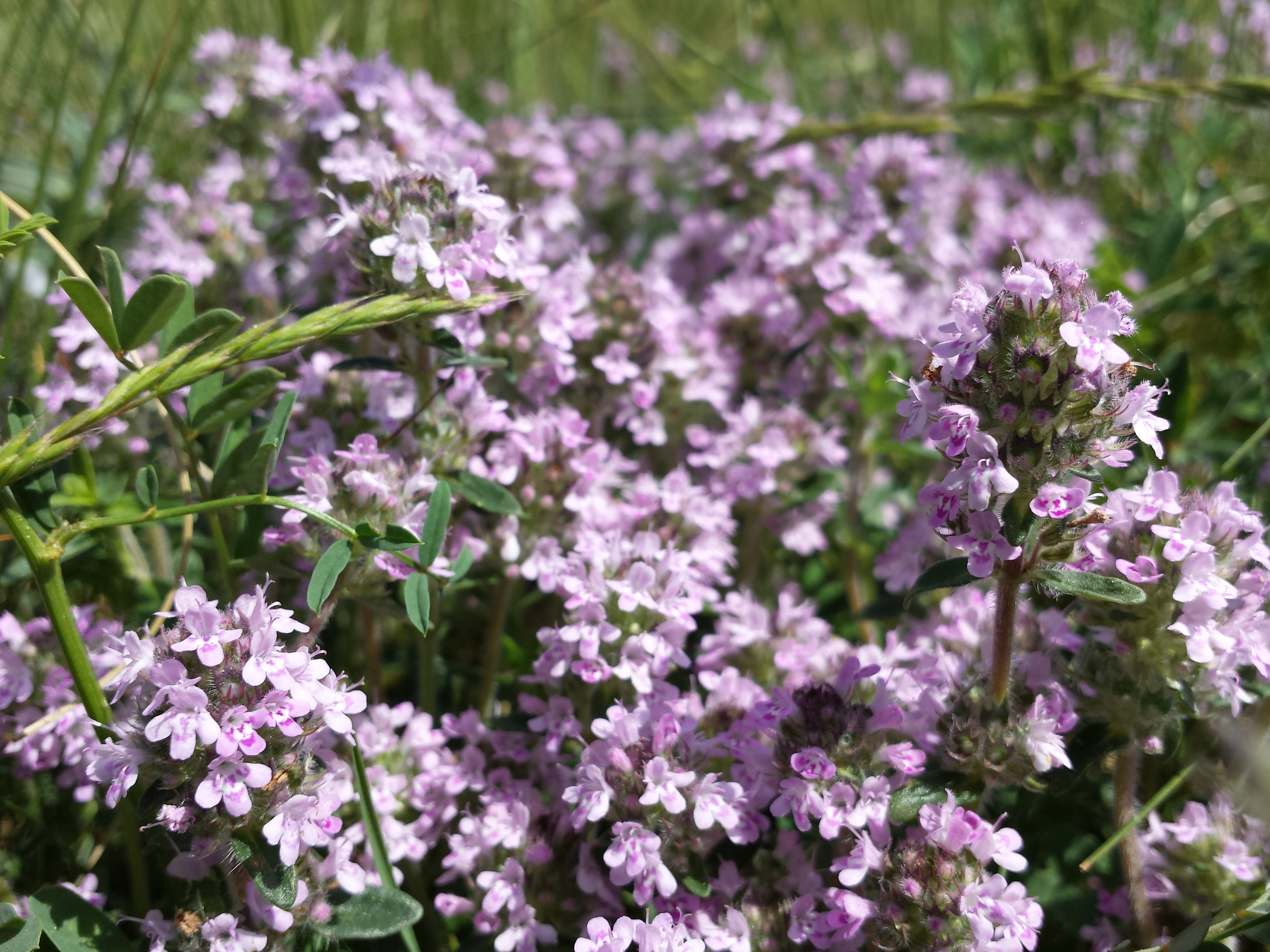 Habitus Taxonym: Thymus odoratissimus (cf., to Thymus pannonicus agg.) ss Fischer et al. EfÖLS 2008 ISBN 978-3-85474-187-9 Location: "In der Hölle" near Wetzleinsdorf, district Korneuburg, Lower Austria - ca. 250 m a.s.l. Habitat: dry grassland